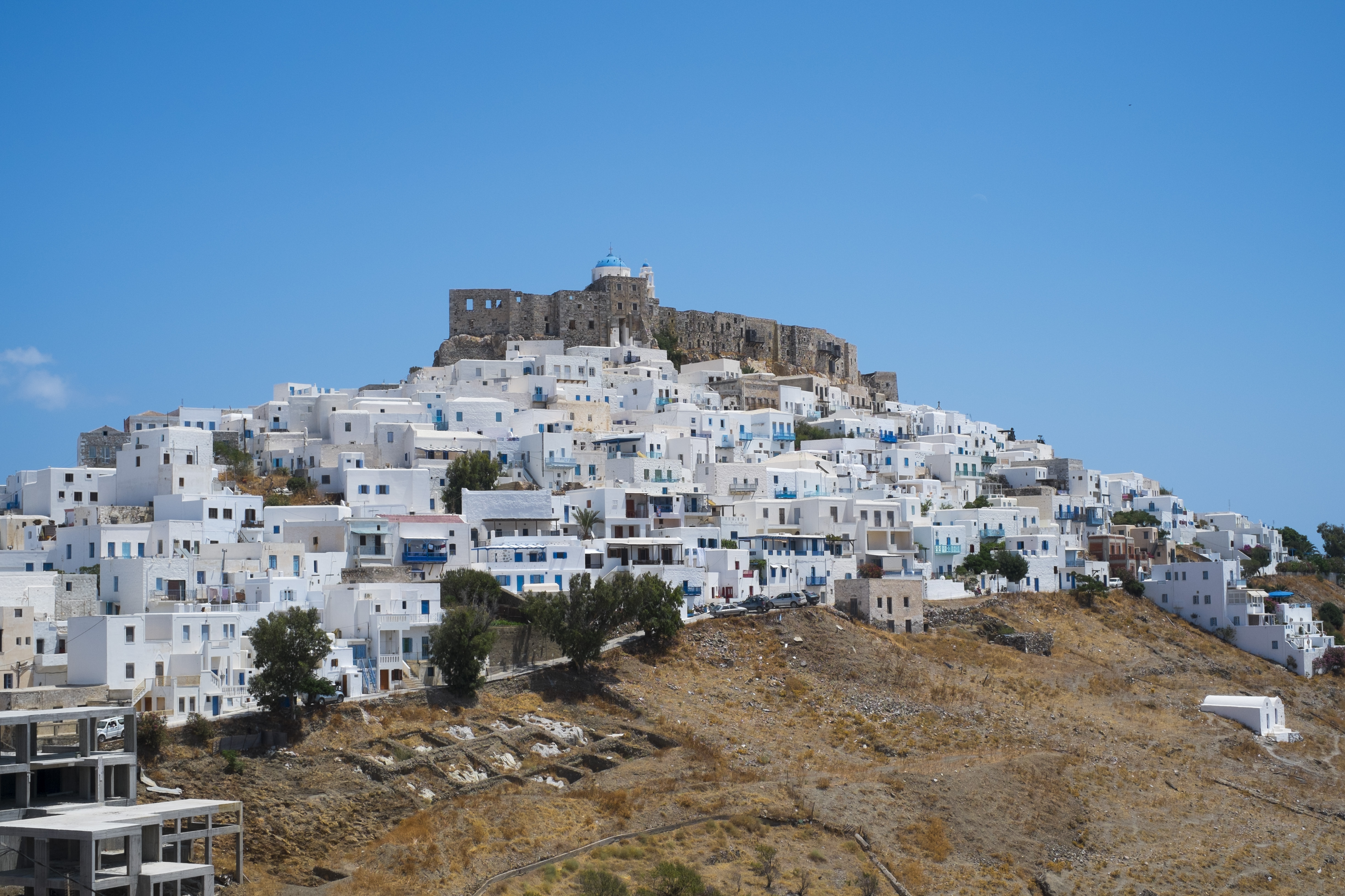 This is a photography of Natura 2000 protected area with ID GR4210009